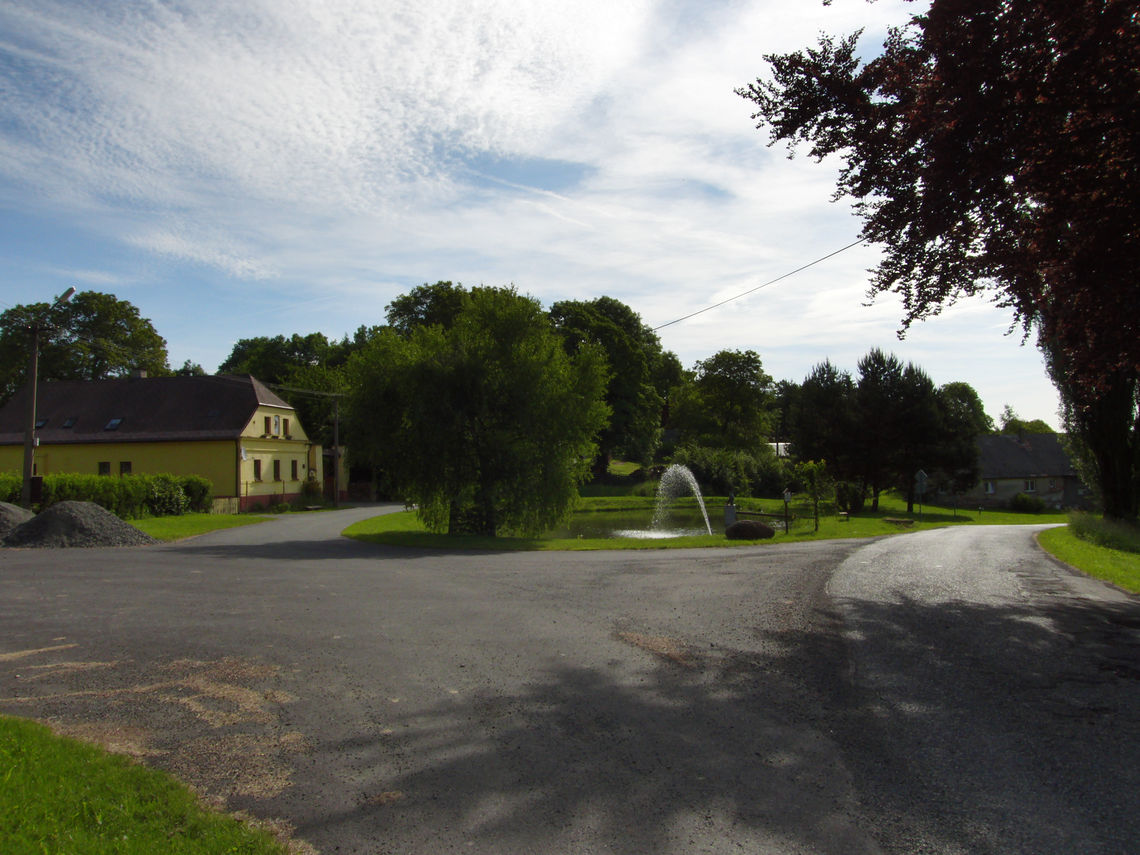 Hora sv. Václava, (Domažlice)